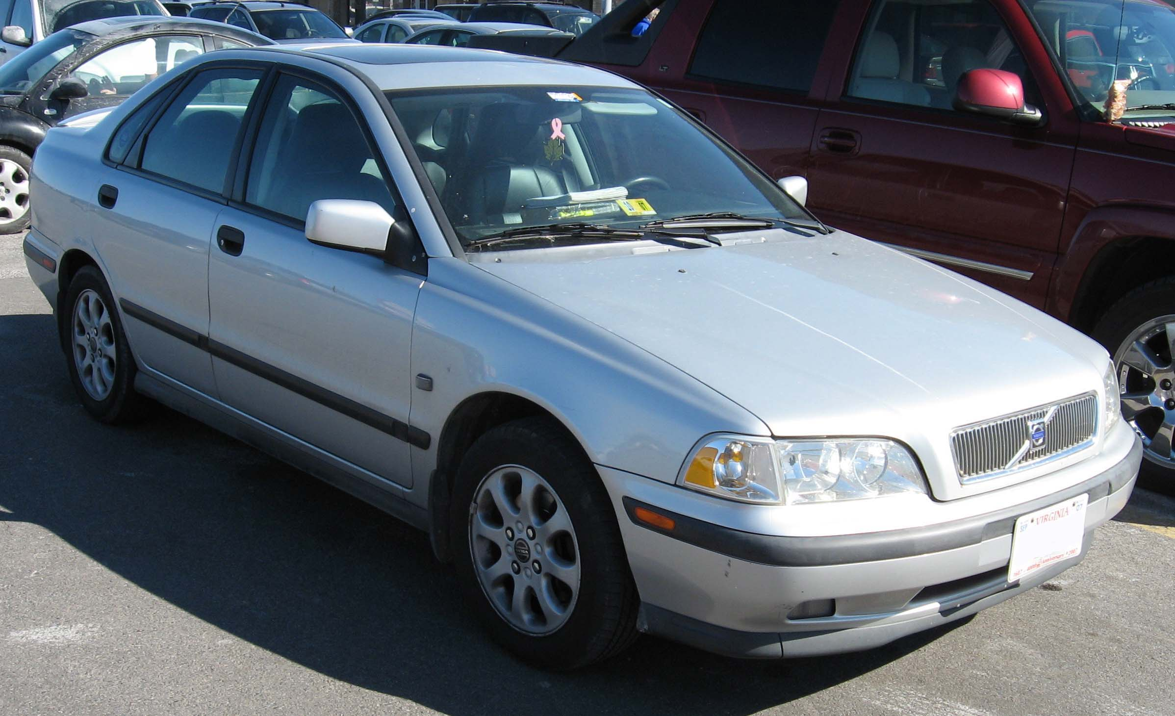 2000-2004 Volvo S40 photographed in USA.